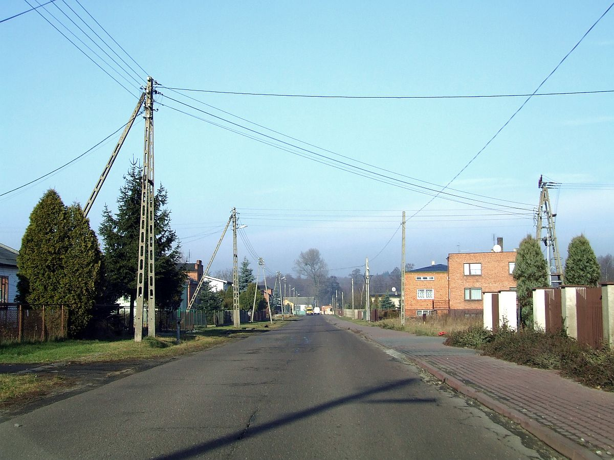 Stara Gadka village - suburbs of Łódź, Poland